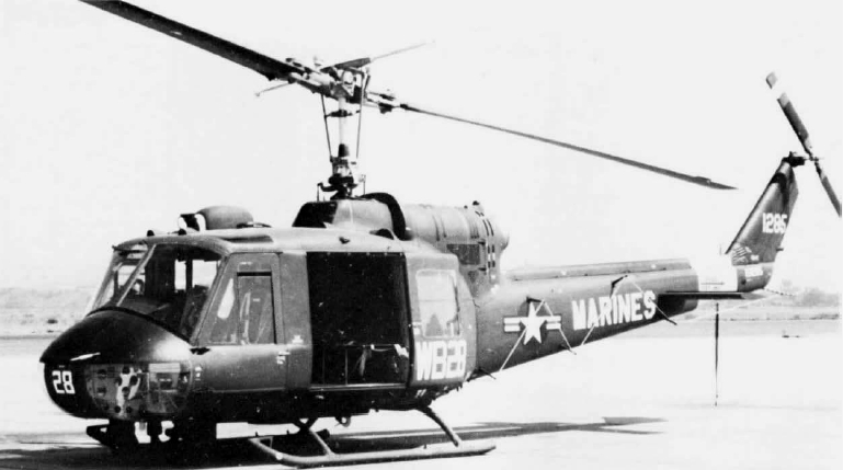 A U.S. Marine Corps Bell UH-1E Huey (BuNo 151285) of Marine Observation Squadron VMO-6, in 1964.